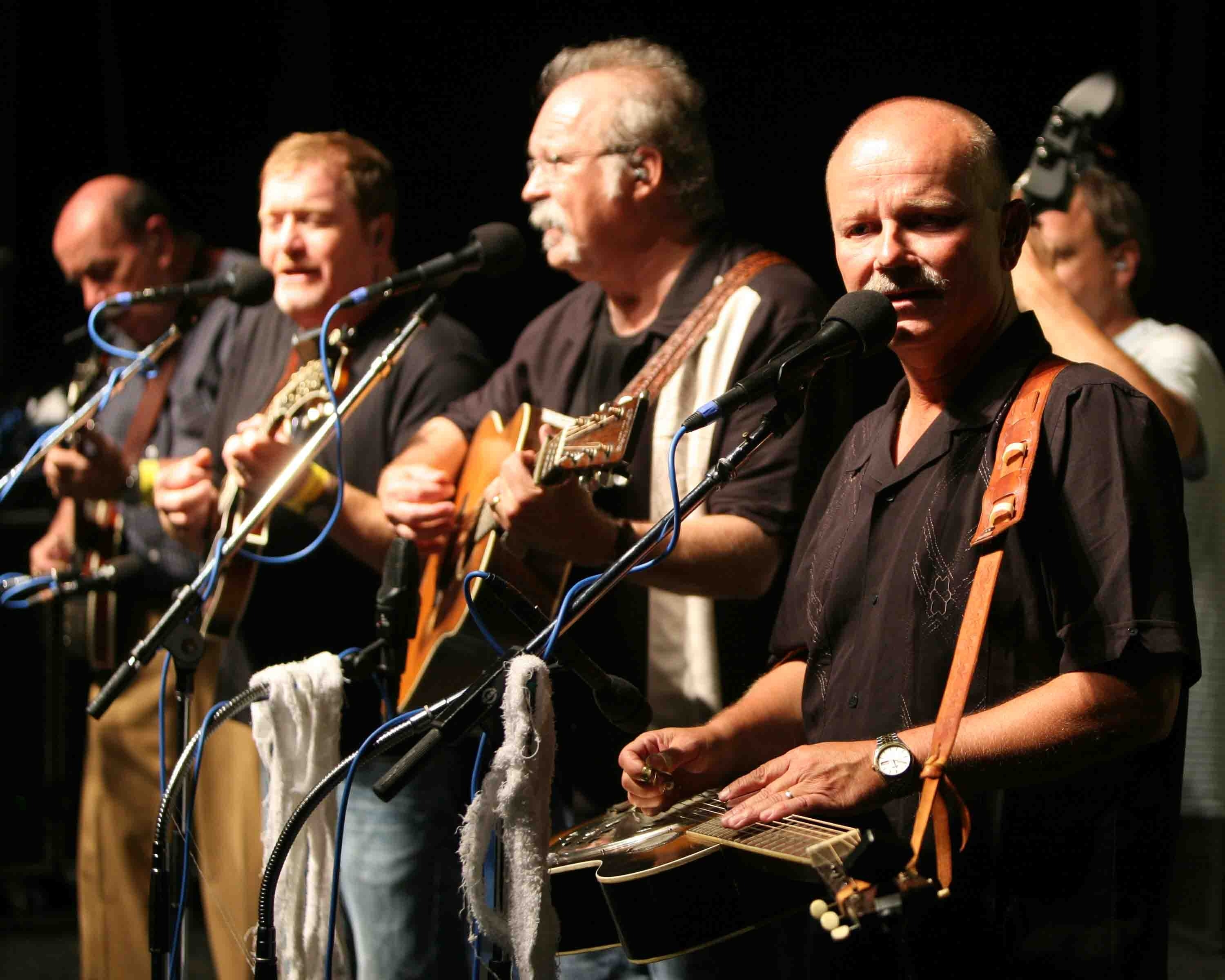 Pocahontas Premieres Seldom Scene. Used in blog and eNews. ZAR